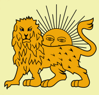 Coat of Flag of Iran during the Qajar dynasty, i.e. the flag of Agha Mohammad Khan.